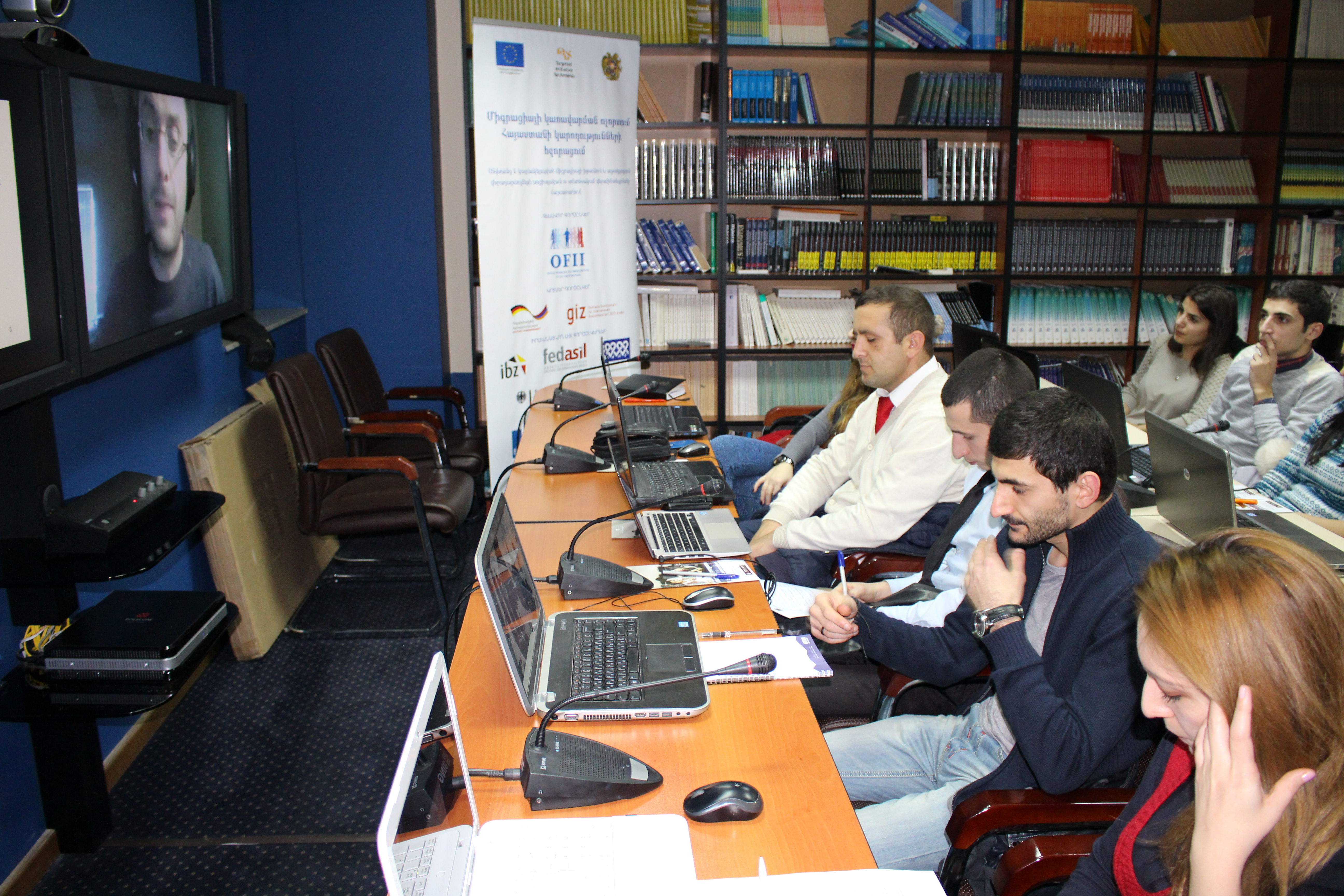 ATC students in the video conference classroom.